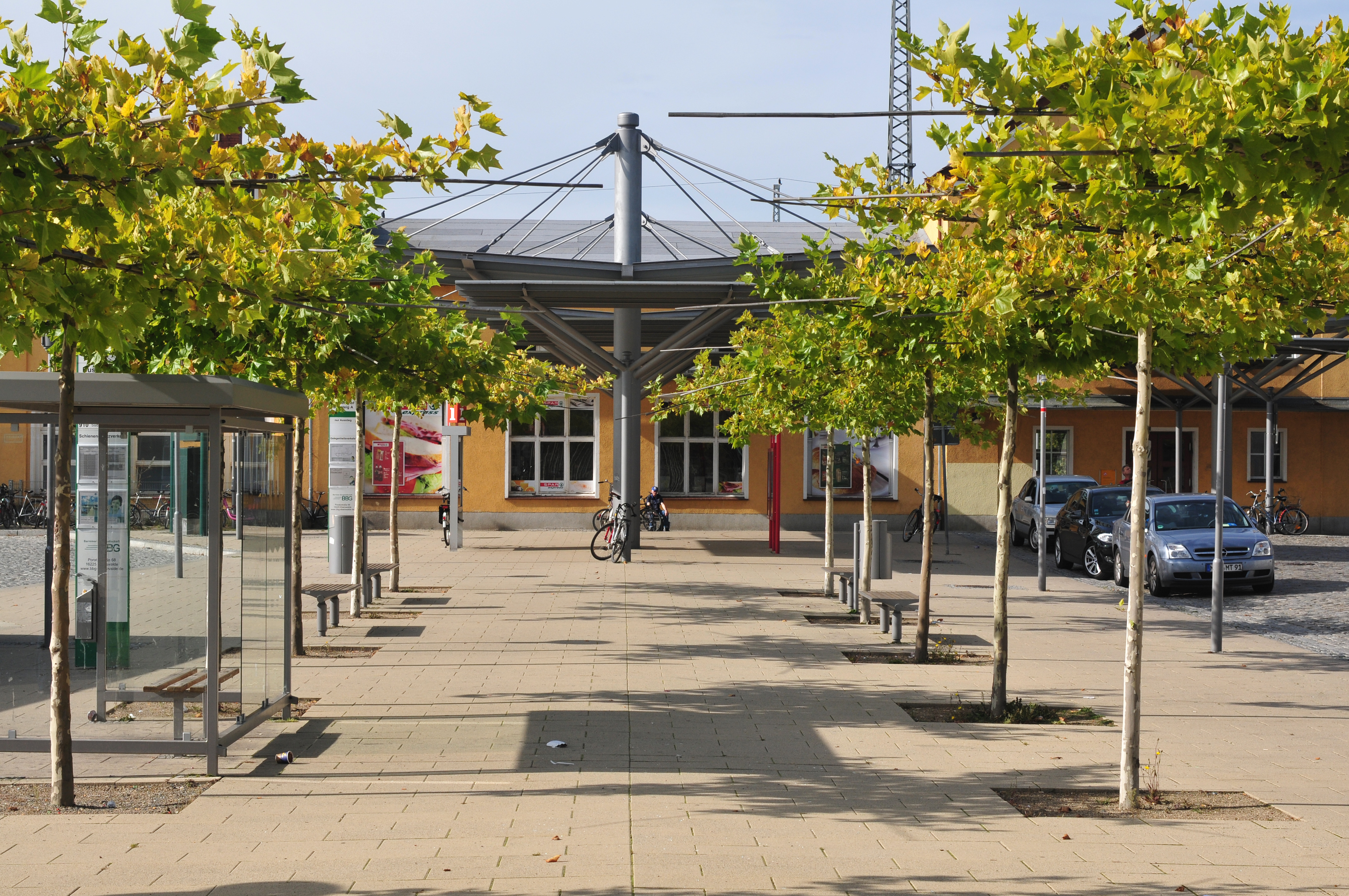 area near main station in Eberswalde, Germany